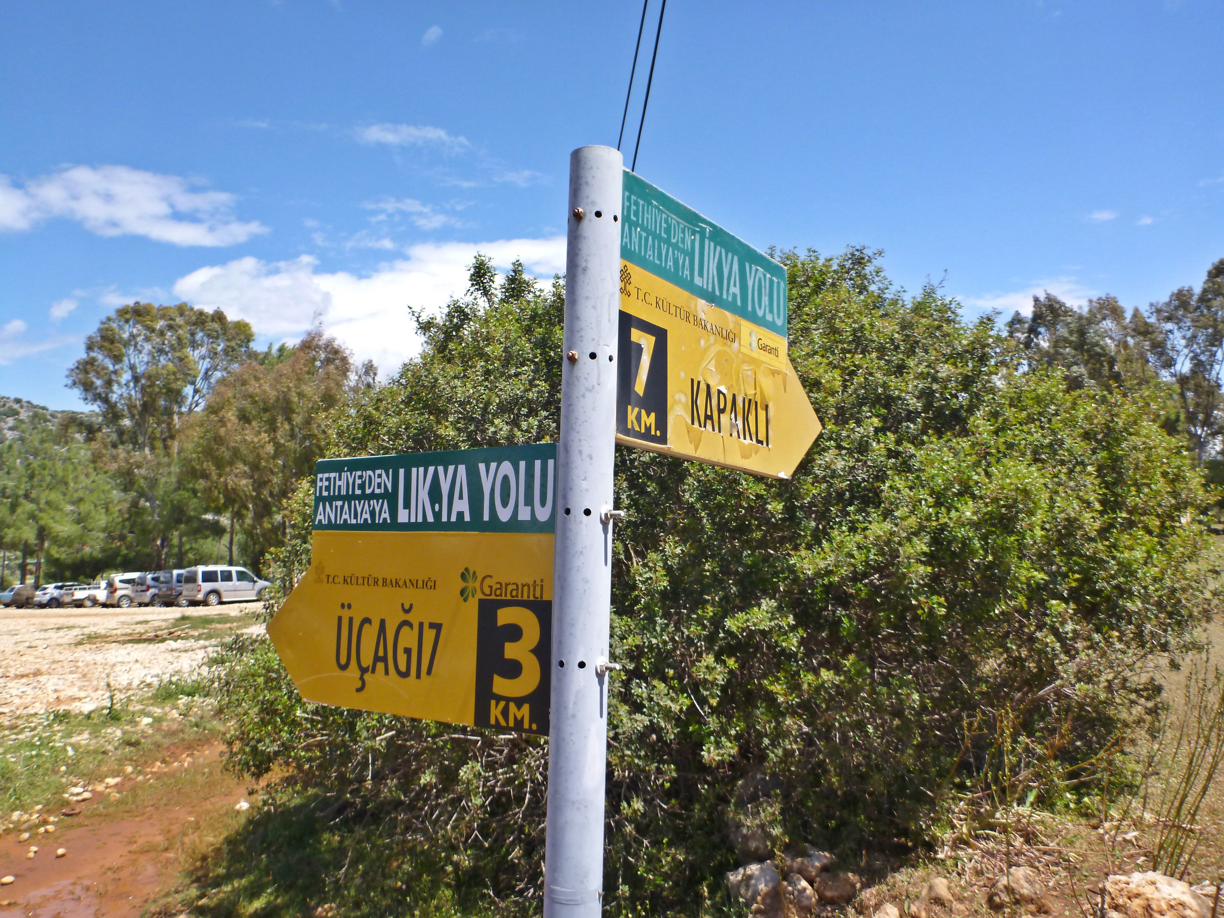 Sign at Lycian Way near Kekova